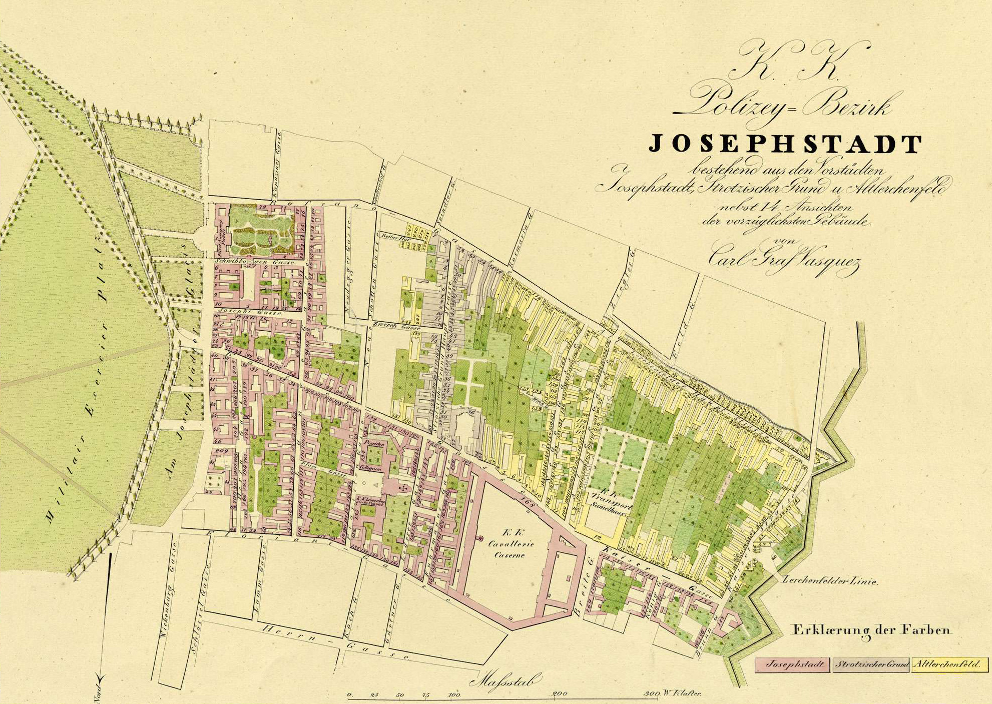 Map of Vienna / Josephstadt, approx. 1830